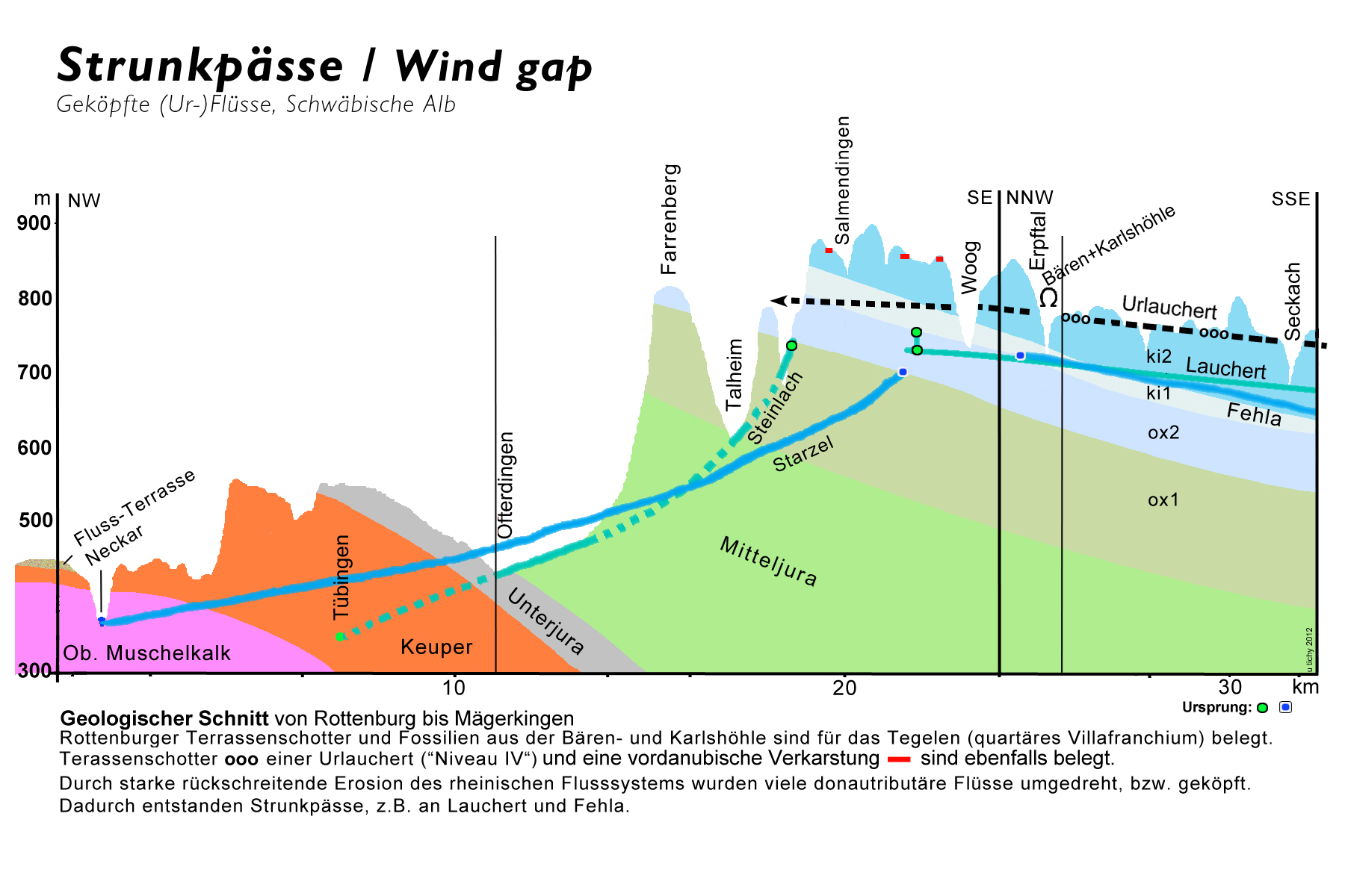 Geological cross section NW-SE: Swabian Jura: Forland at Rottenburg, Alb-Cuesta at Talheim and Mägerkingen on the Alb plateau. Evidence of both, old fluvial terraces of river Neckar and fossils in Upper Danube-related former river-cave "Bärenhöhle (German)" were rated to be of "Tegelen" age (lower Pleistocene). The immense headward erosion of Neckar tributaries has captured Danube tributaries and created wind gaps. Karst phenomena accelarated the process.